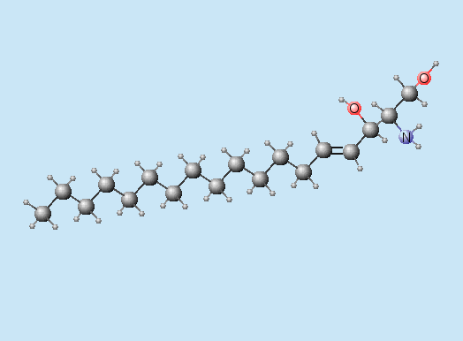 3D Chemical structure of the molecule Sphingosine. Made with Corina Software